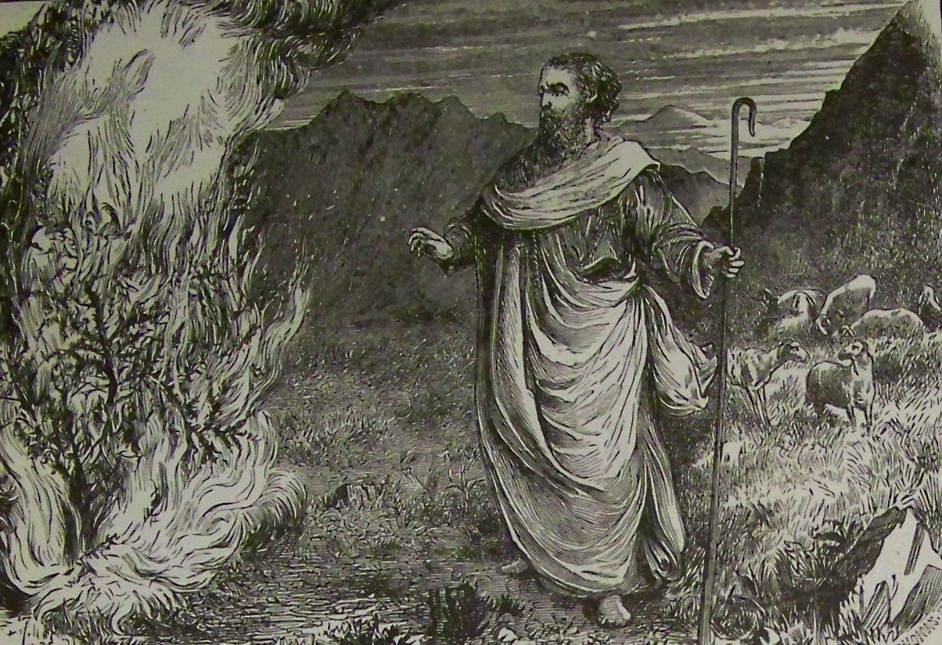 Moses and the Burning Bush, illustration from the 1890 Holman Bible